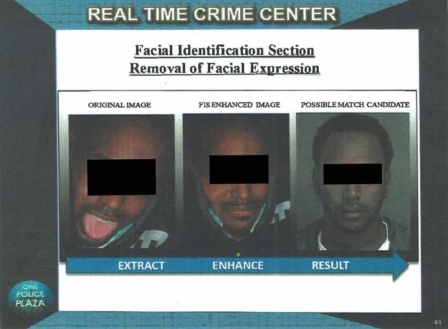 for more information